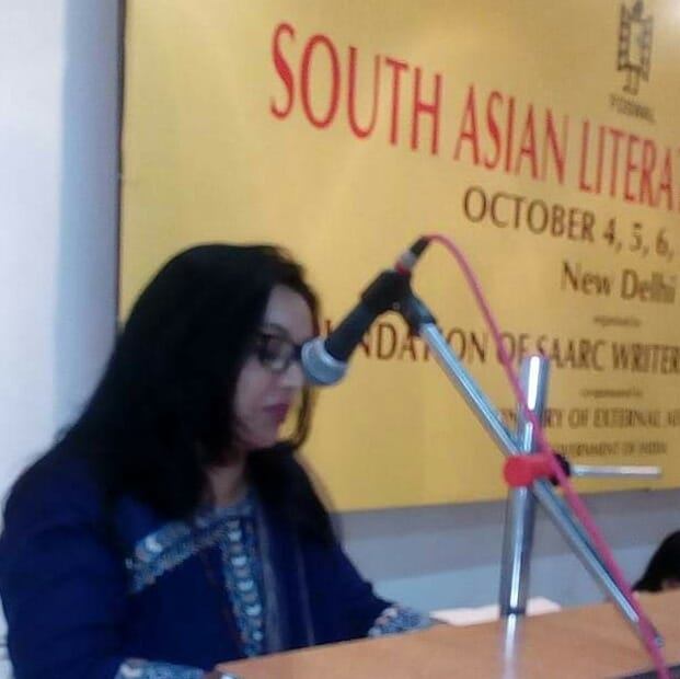 Nepali poet Geeta Tripathee reading her poem during South Asian Literature Festival in New Delhi on October 2018